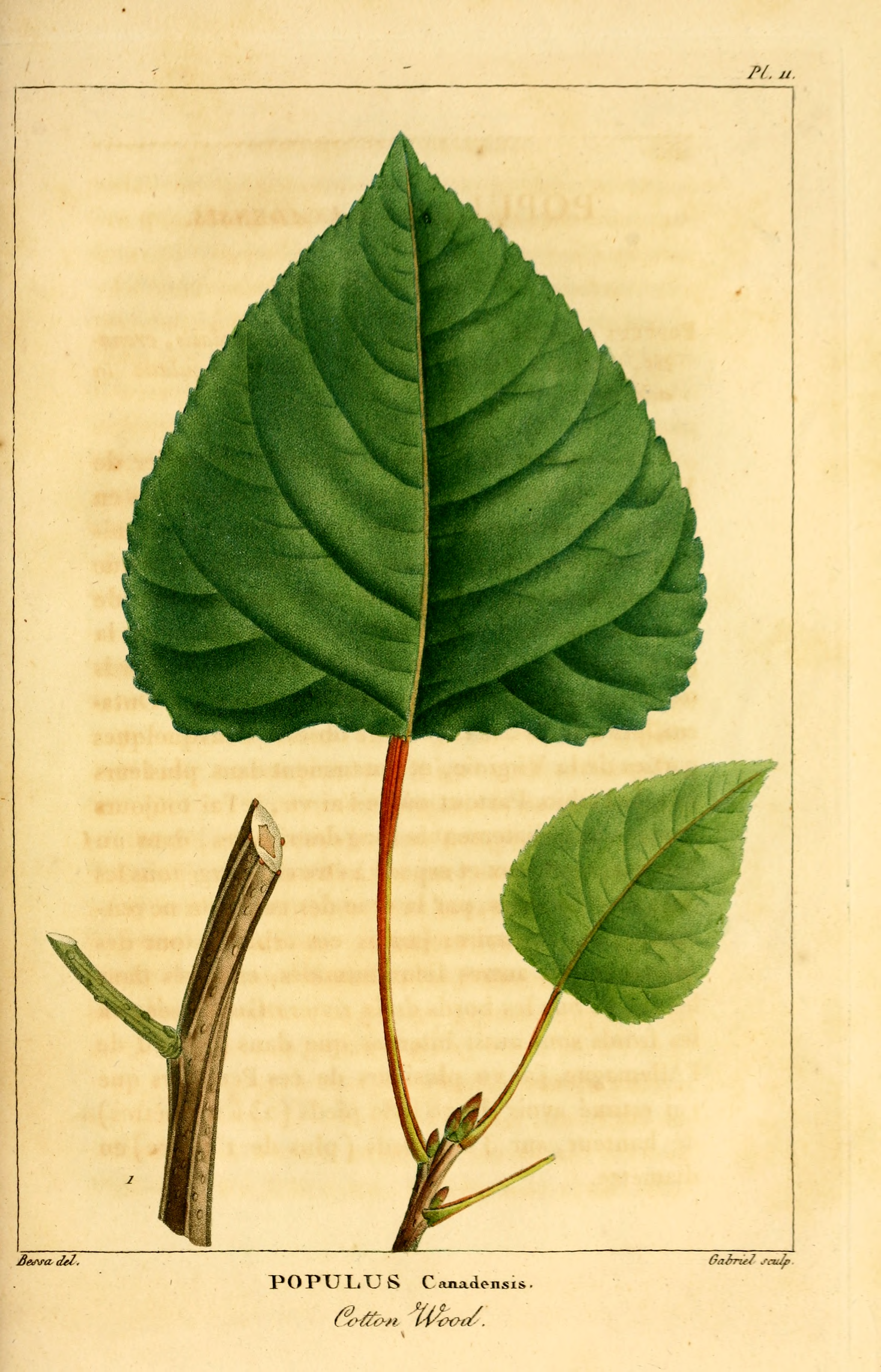 Populus × canadensis